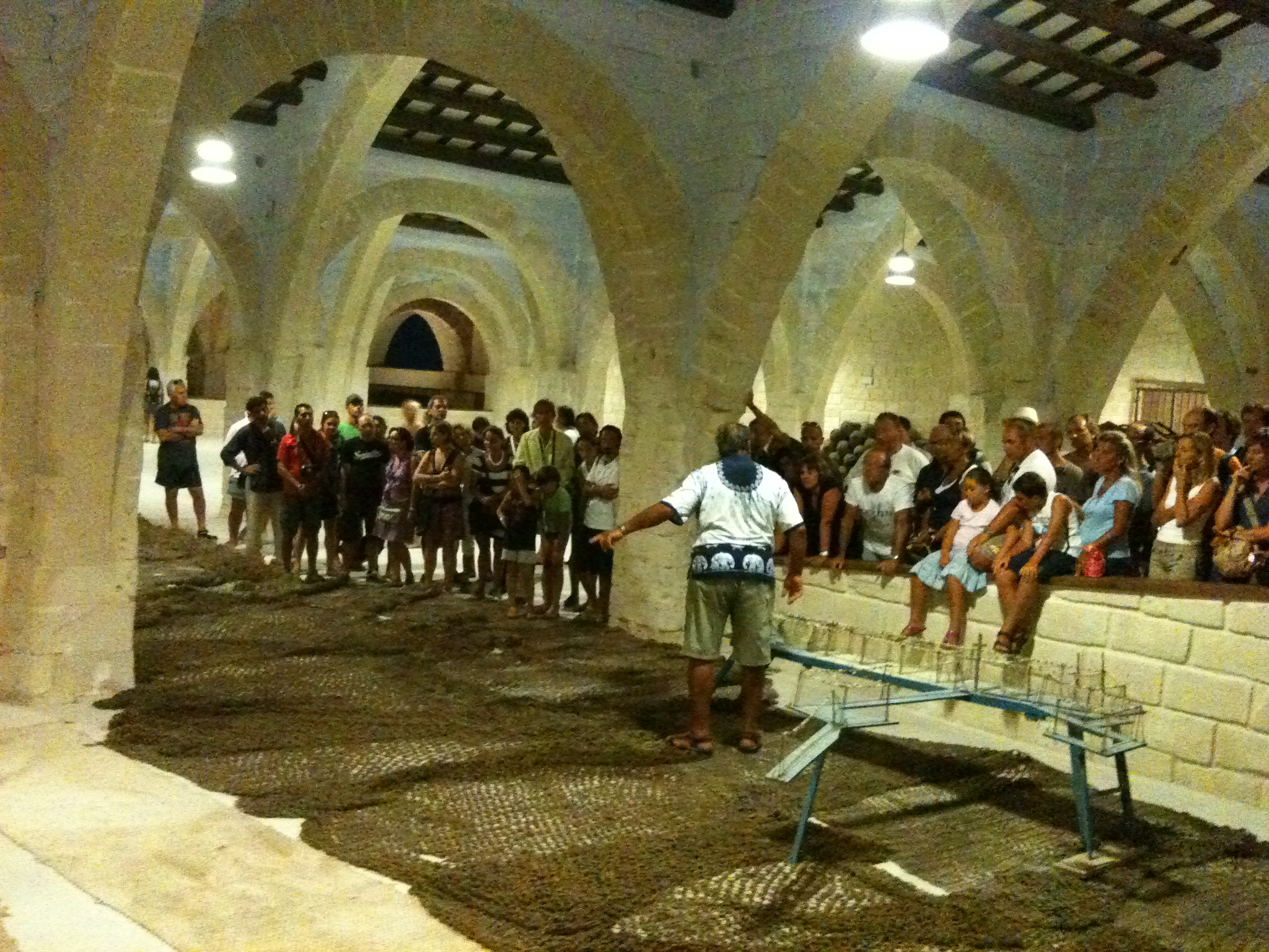 Rais Gioacchino Cataldo - Ex Stabilimento Florio delle Tonnare di Favignana e Formica